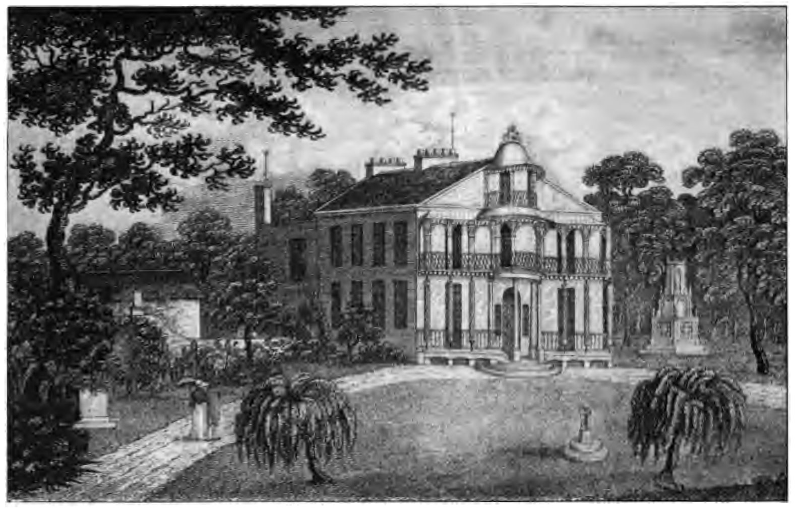 House ('Summergangs House') on Holderness Road, replaced in 1838 by "Holderness House"